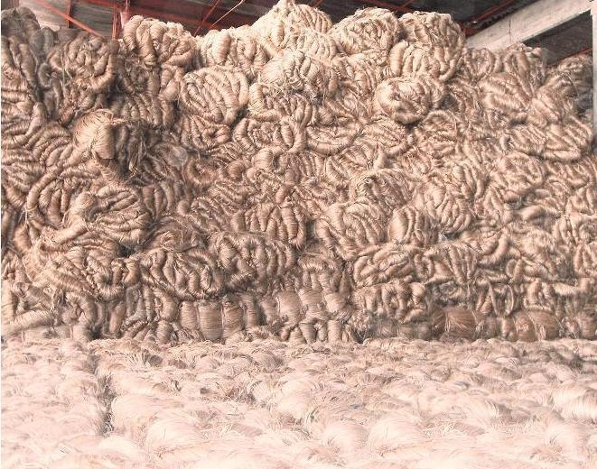 Raw Jute of Faridpur..collected by SilkRoad Bd